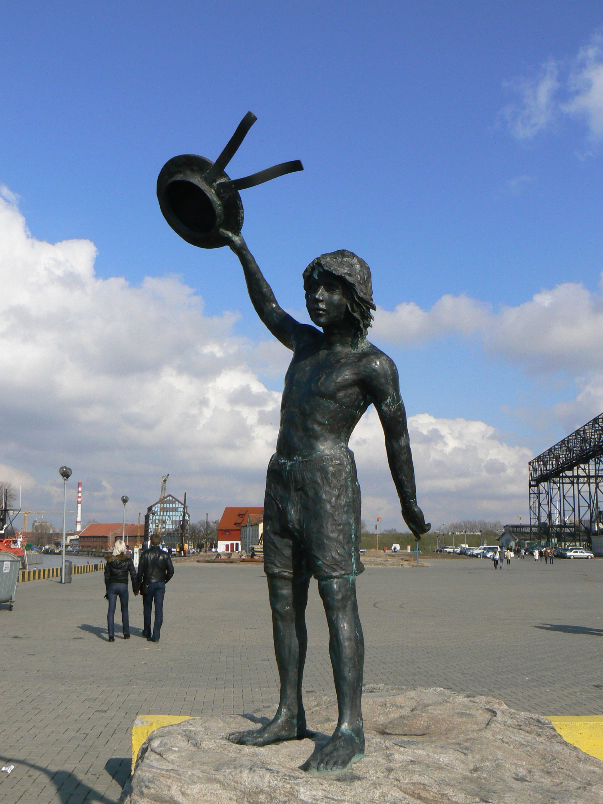 Statue of boy in Klaipėda's harbor